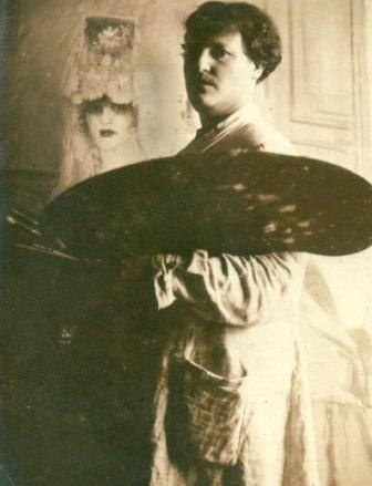 Federico Beltran Masses in 1914